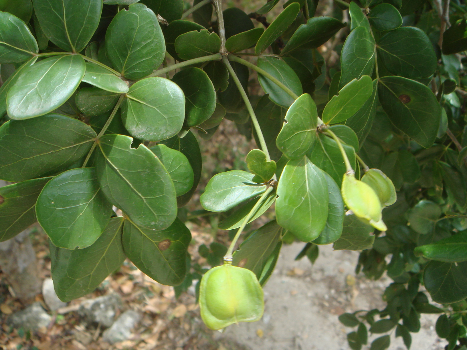 Common lignumvitae, Dry Forest of Guánica, PR.